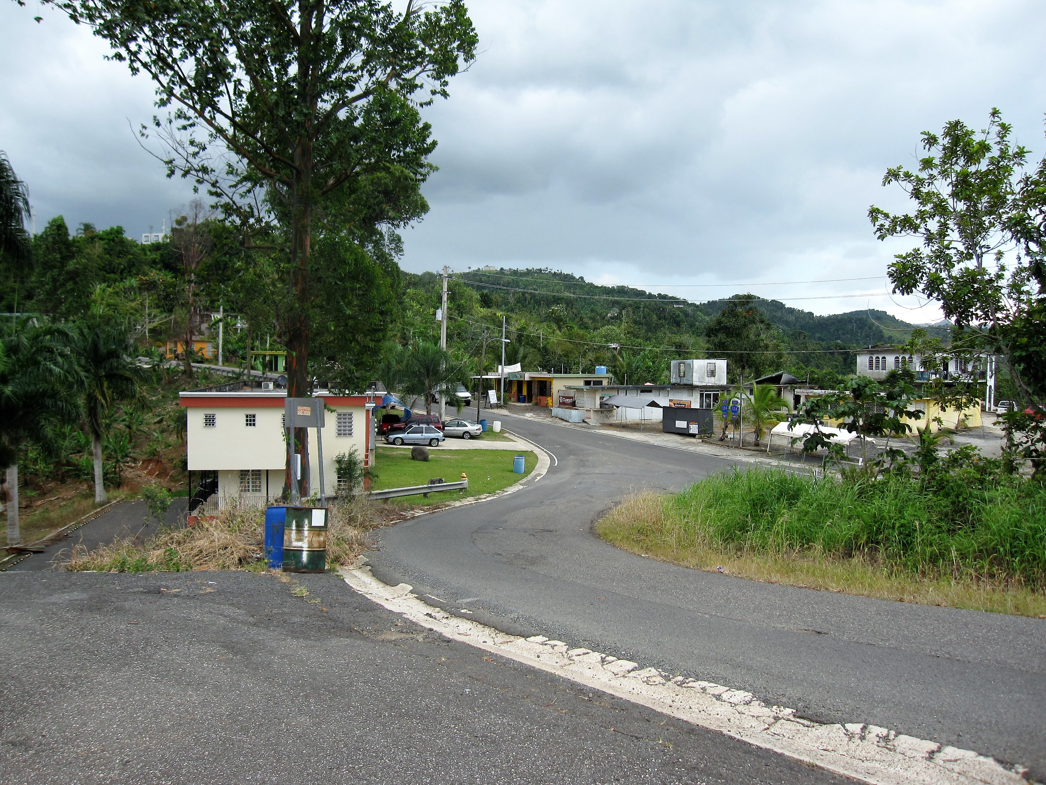 Barrio Espino, coming from Sector Caballito, Lares, Puerto Rico, PR-435 junction with PR-124